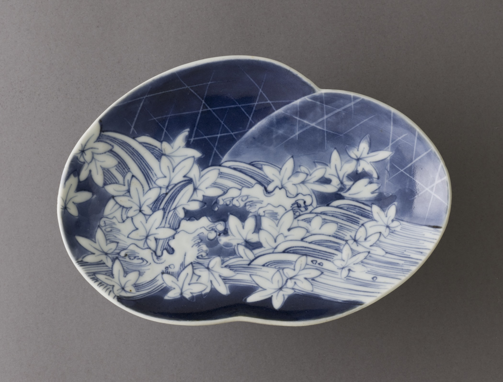 Japan, circa 1650s-1670s Furnishings; Serviceware Arita ware; porcelain with underglaze blue 1 1/16 x 6 1/4 x 4 3/8 in. (2.7 x 15.88 x 11.11 cm) Japanese Art Acquisition Fund (M.2007.175) Japanese Art